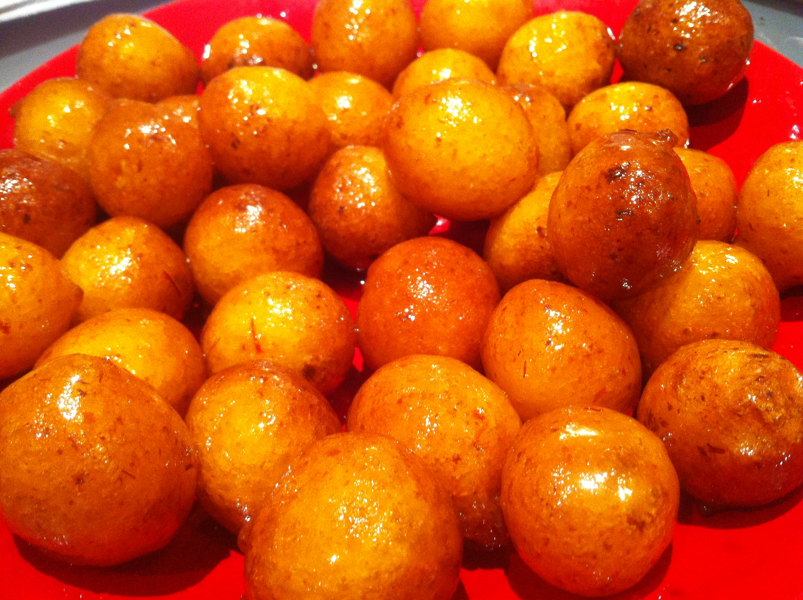 kuwaiti lgemat